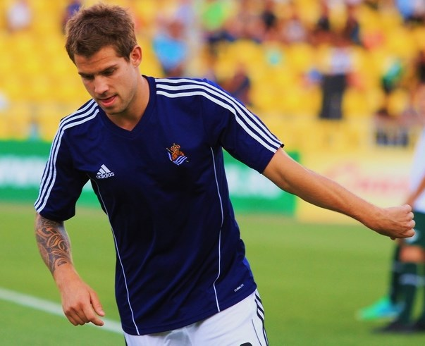 Iñigo Martínez